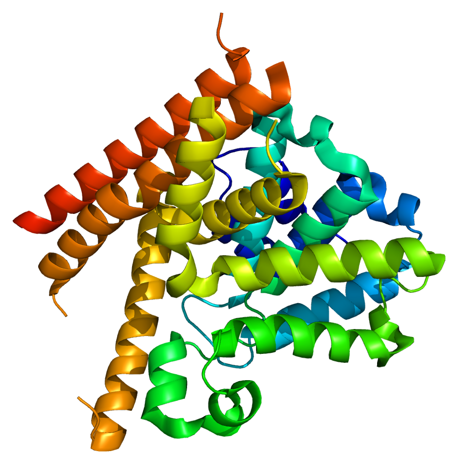 Structure of the PDE1B protein. Based on PyMOL rendering of PDB 1taz.